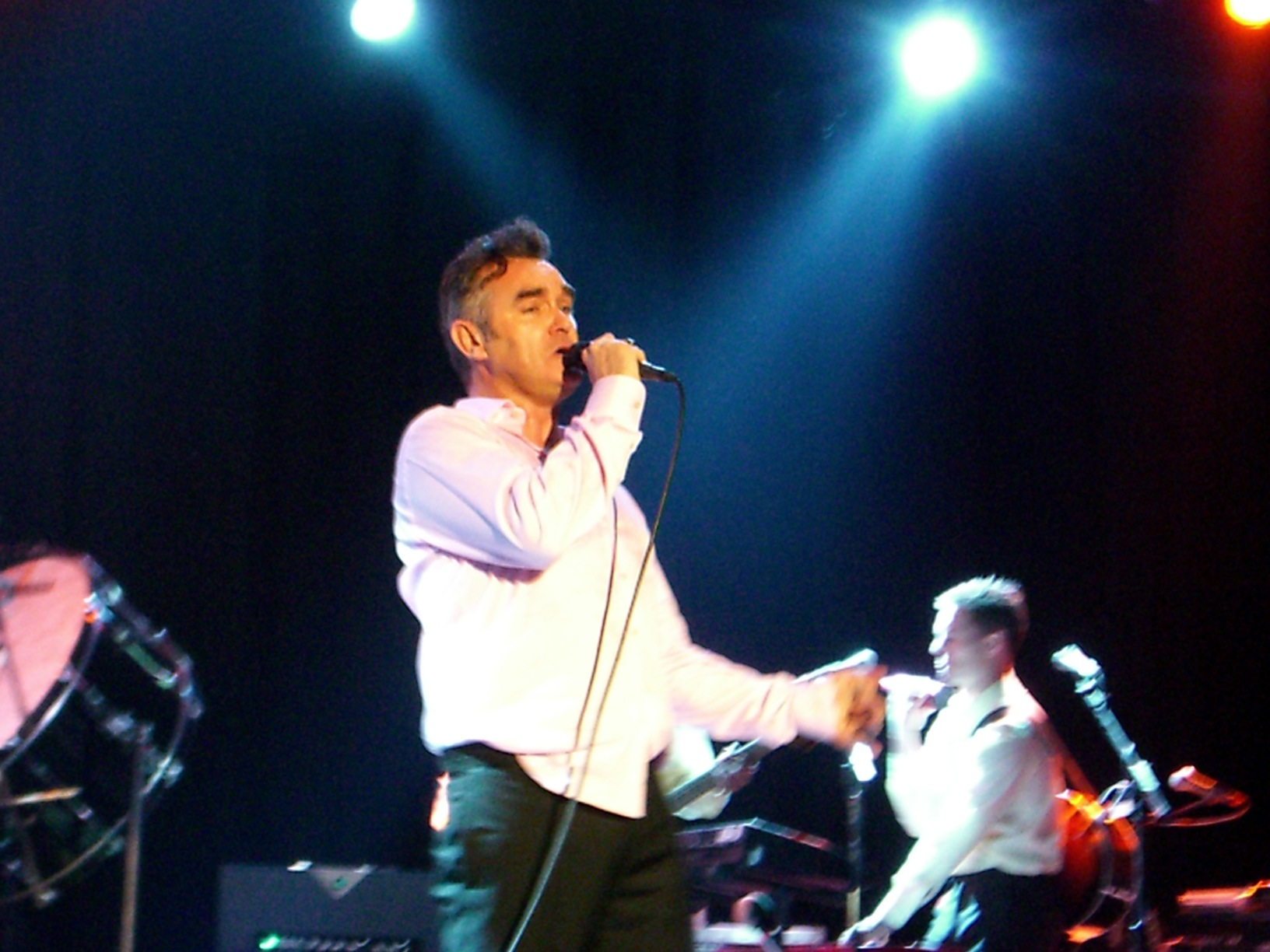 Morrissey. Live at SXSW, Austin, Texas, USA